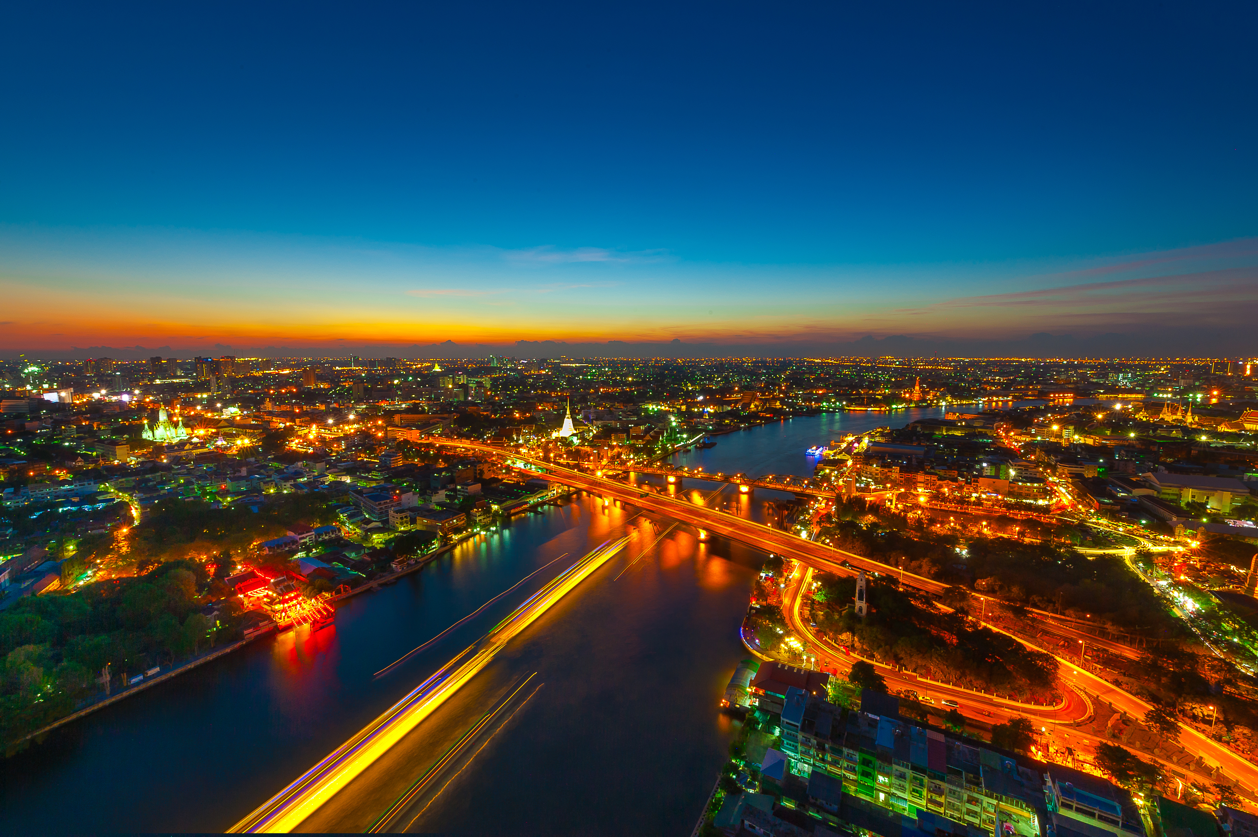 Phra Pok Klao Bridge (nearer) and Memorial Bridge (farther), Bangkok